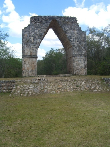 Free-standing arch at Kabah, Yucatán